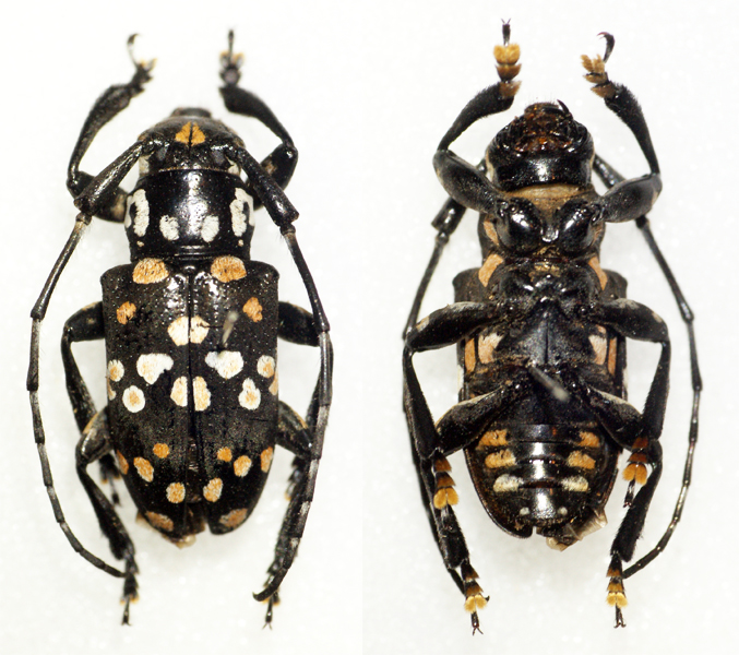 Westwood,1863 Sex: Male Data: 12-2013 - Cagayan - North Luzon - Philippines Size: ?